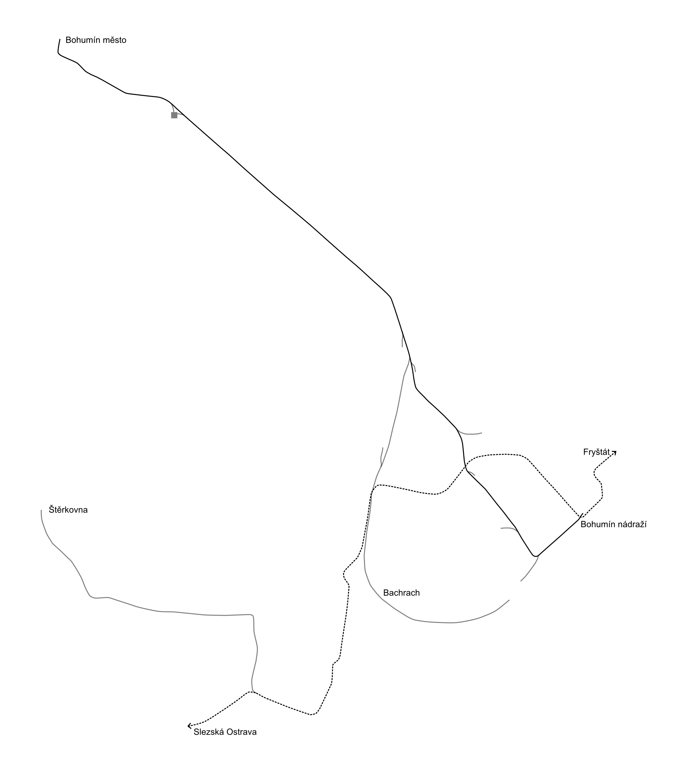 Tram network in Bohumín (situation in 1930), Czech Republic